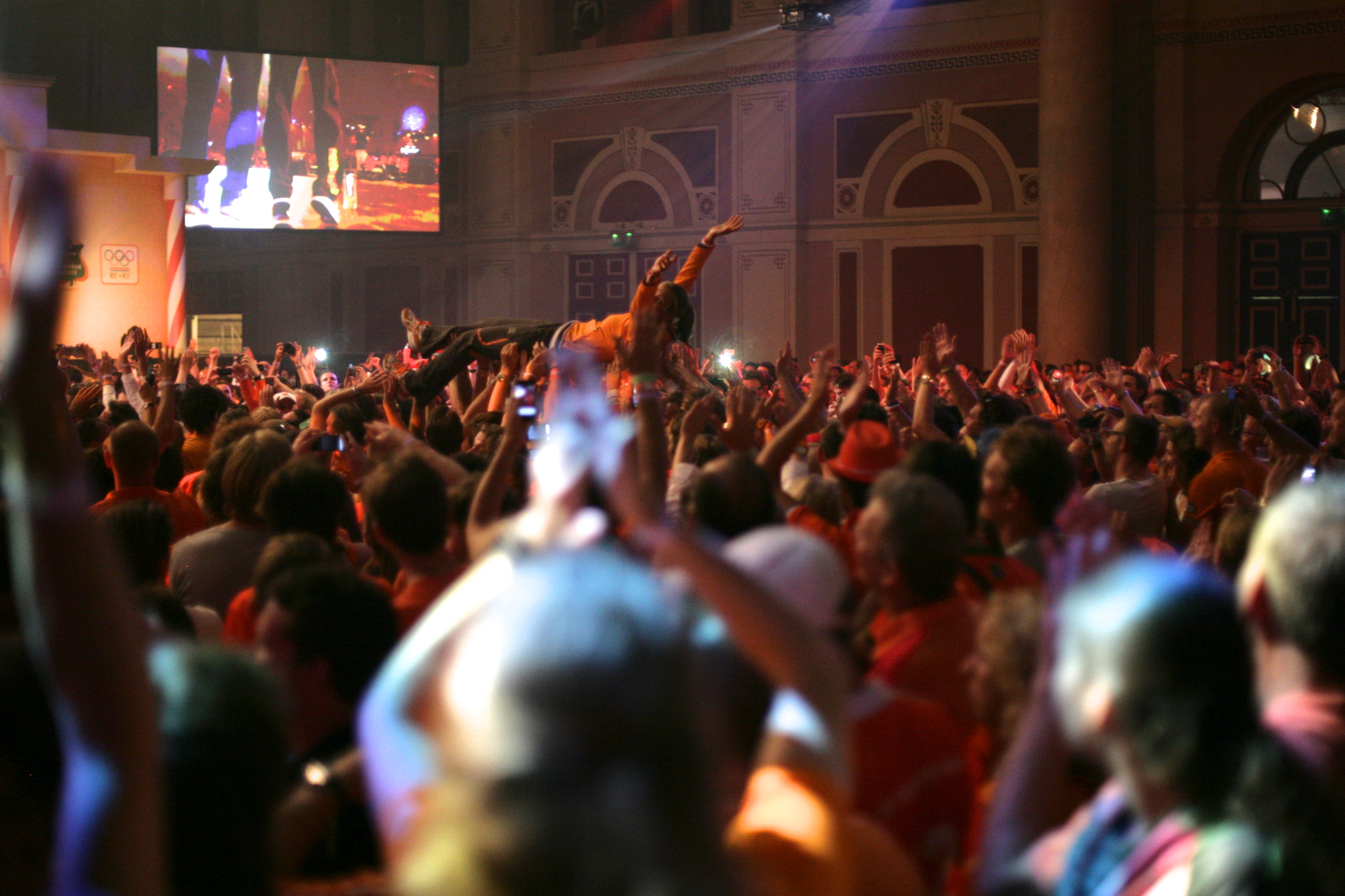 Lobke Berkhout & Lisa Westerhof crowdsurfing @ Holland Heineken House